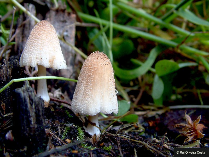 The mushroom Coprinellus truncorum (Scop.) Redhead, Vilgalys & Moncalvo. Photographed in Monsanto, Lisboa, Portugal. "Notes: This Coprinellus has small brown scales."